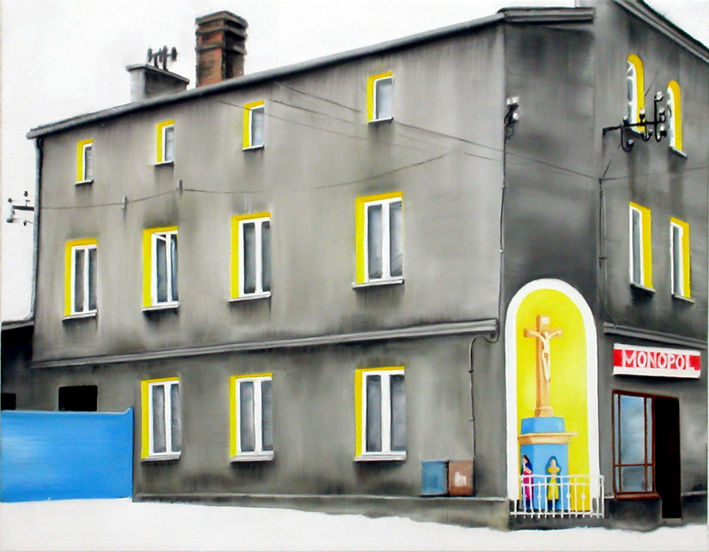 Slawomir Elsner Untitled 22 2004, 55 x 70 cm, oil on canvas